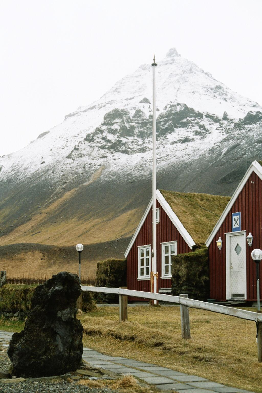 Arnarstapi on Snæfellsnes Peninsula, Iceland Photo shows the village of Arnarstapi on the western end of the Snæfellsnes peninsula in Iceland. Snæfellsjökull is behind the smaller volcano. On this day, it was behind clouds. Photo credit: Reykholt Capture date: April en:2004 Location: Snæfellsnes Peninsula, Iceland